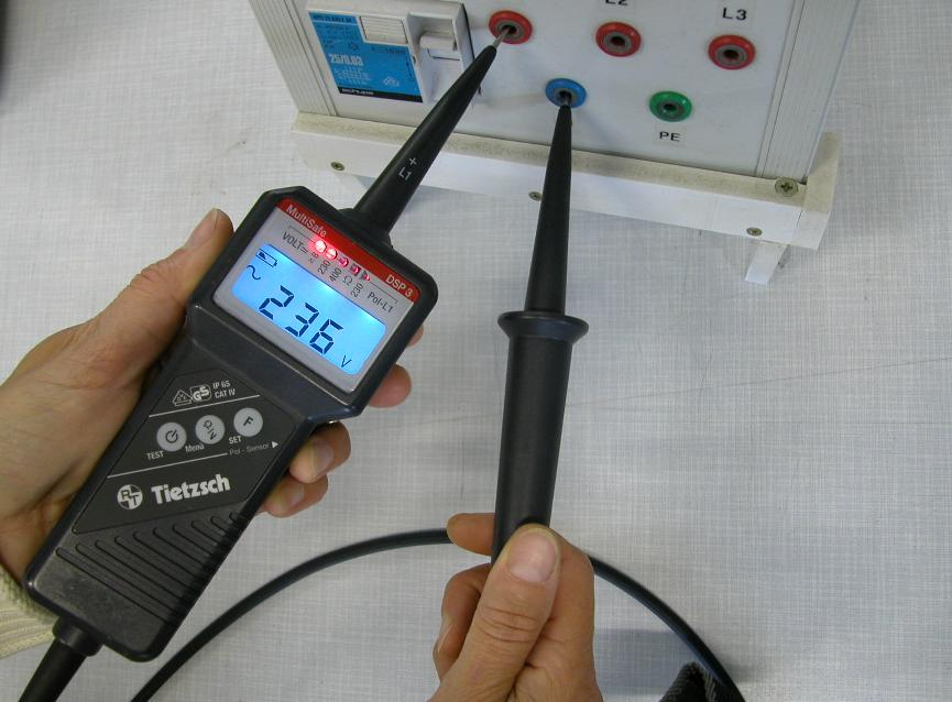 Digital voltagtester